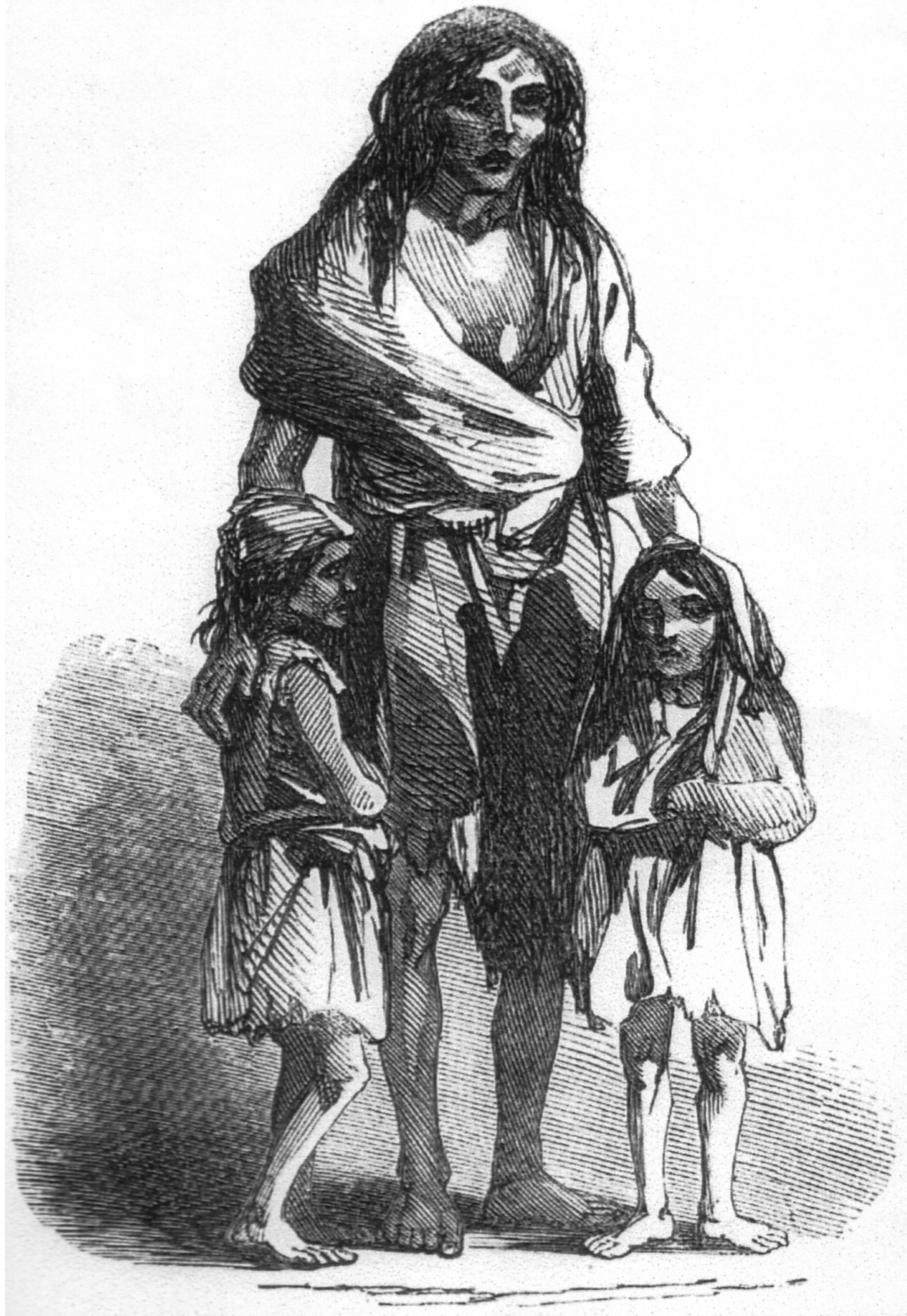 Depiction of the Irish potato famine: The Sketch of a Woman and Children represents Bridget O'Donnel. Her story is briefly this:-- '. . .we were put out last November; we owed some rent. I was at this time lying in fever. . . they commenced knocking down the house, and had half of it knocked down when two neighbours, women, Nell Spellesley and Kate How, carried me out. . . I was carried into a cabin, and lay there for eight days, when I had the creature (the child) born dead. I lay for three weeks after that. The whole of my family got the fever, and one boy thirteen years old died with want and with hunger while we were lying sick.